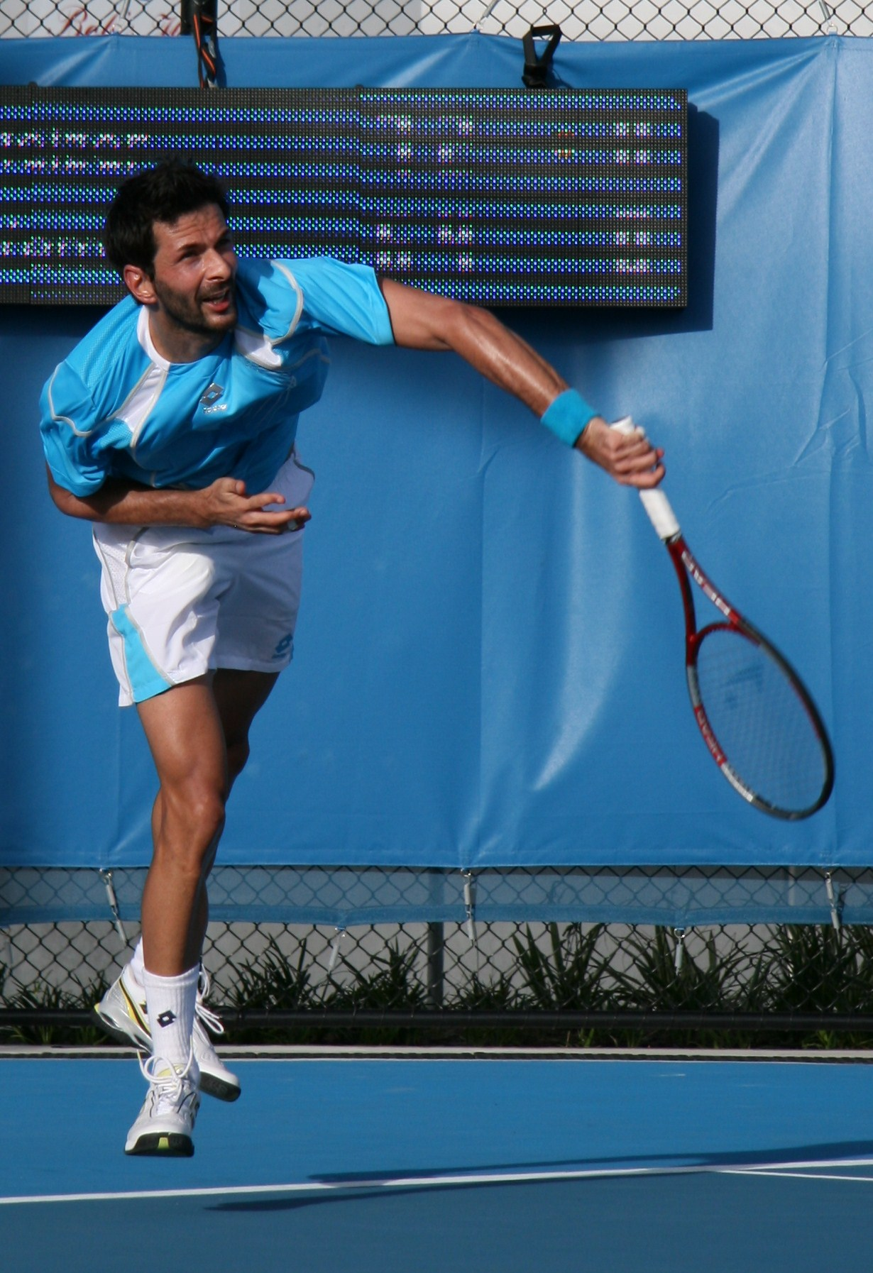 Julian Knowle at 2009 Brisbane International, Brisbane, Australia.